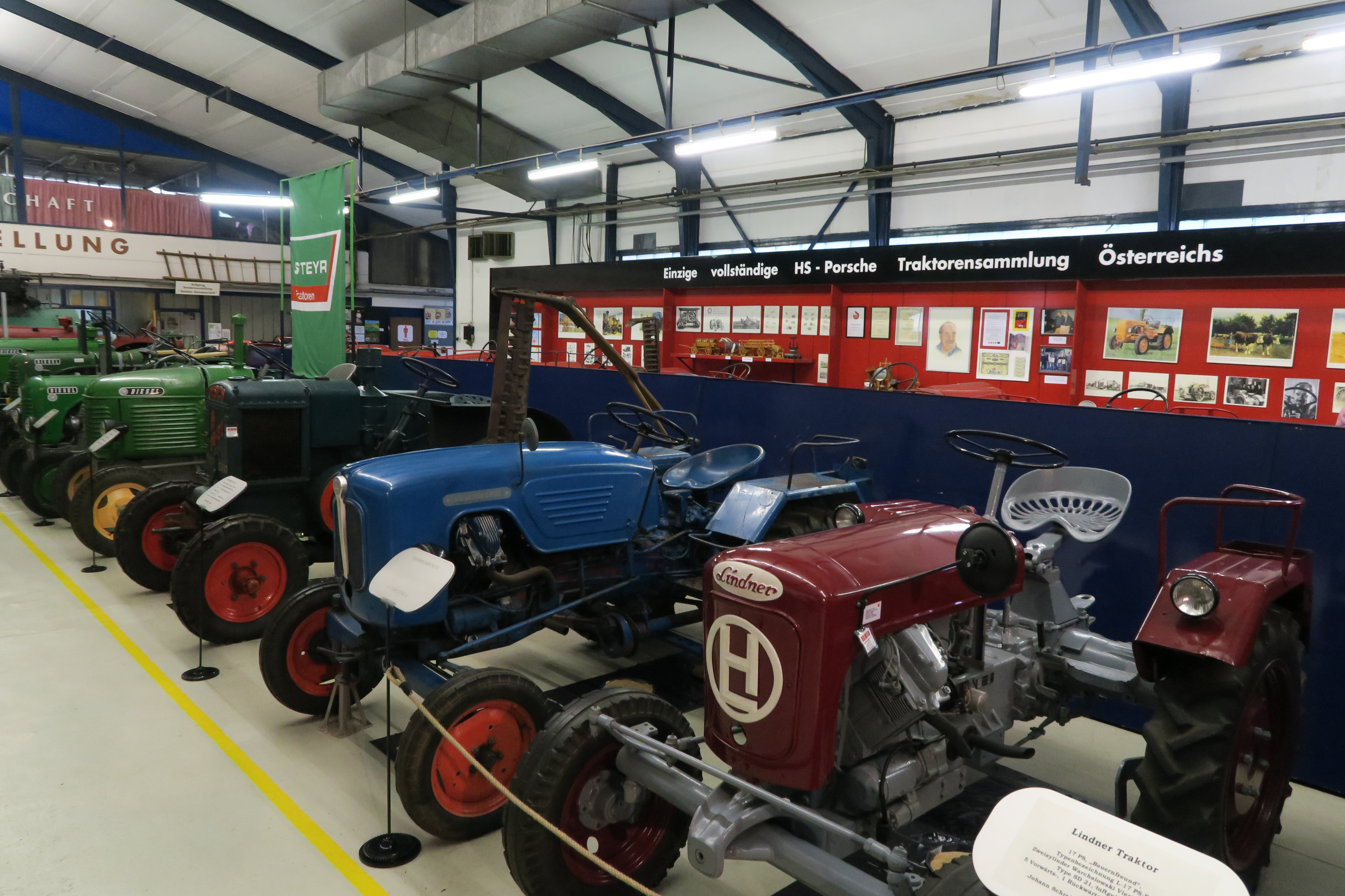 Landtechnikmuseum Burgenland, St. Michael